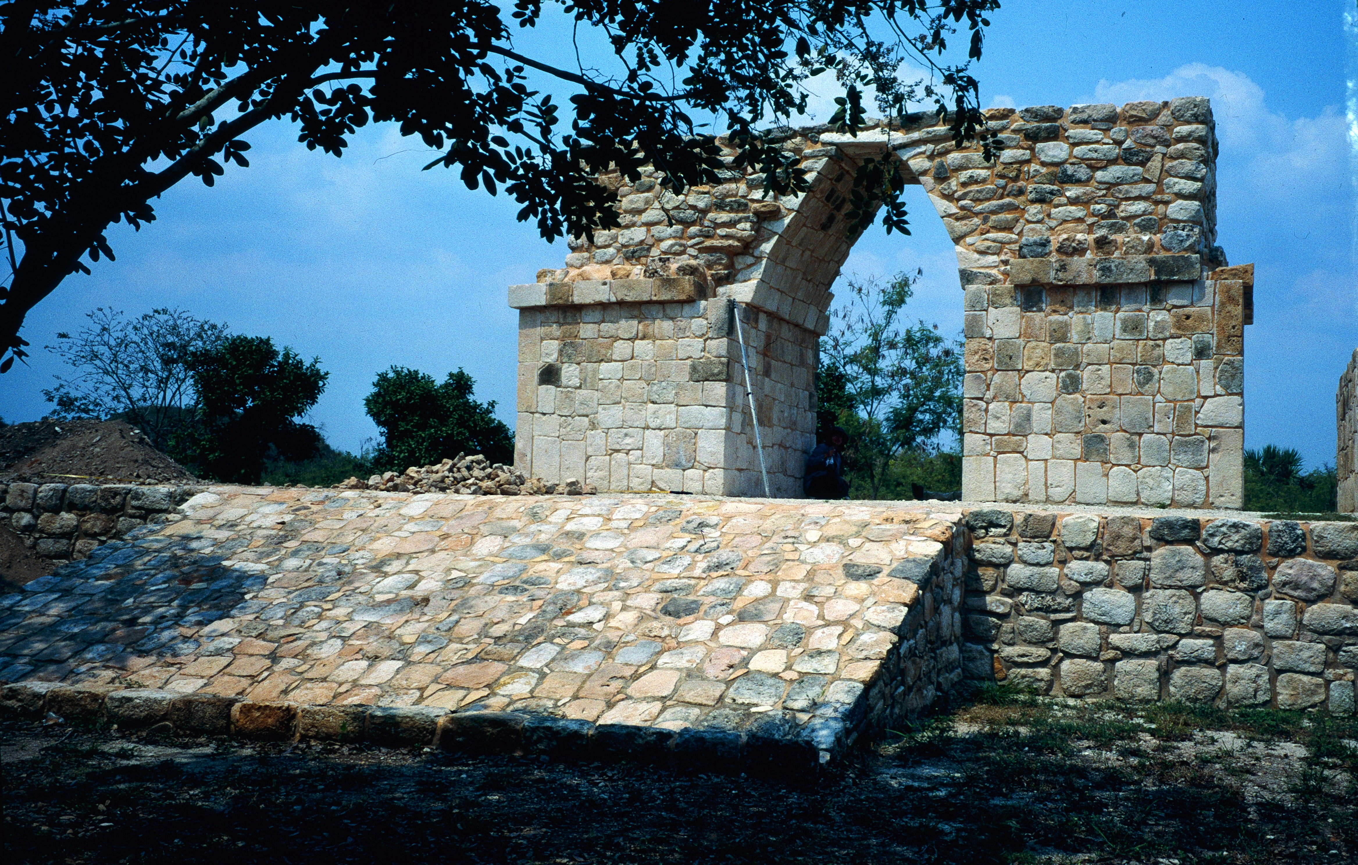 Oxkintoc, Yucatan, Mexico: Group Dzib, archway